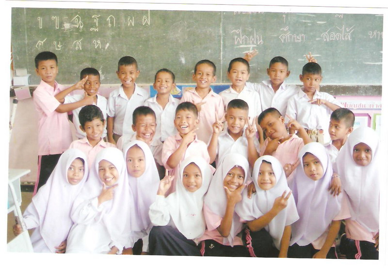 Original_laharn1